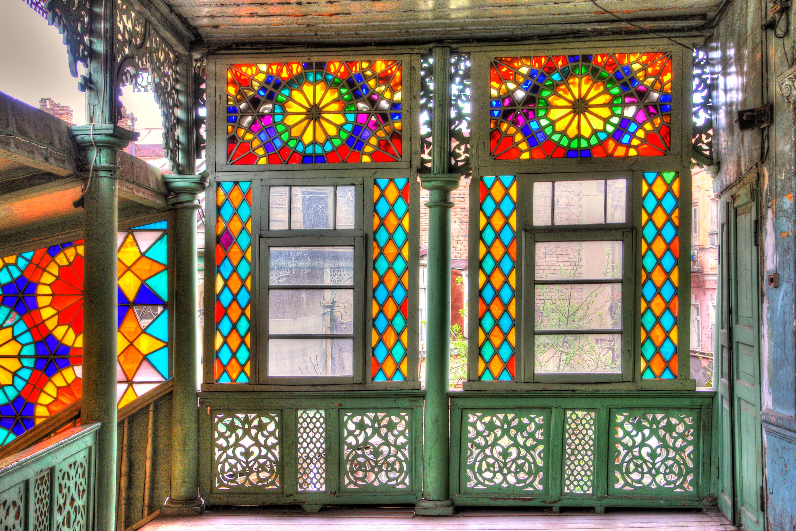 Window Balcony Bethlemi